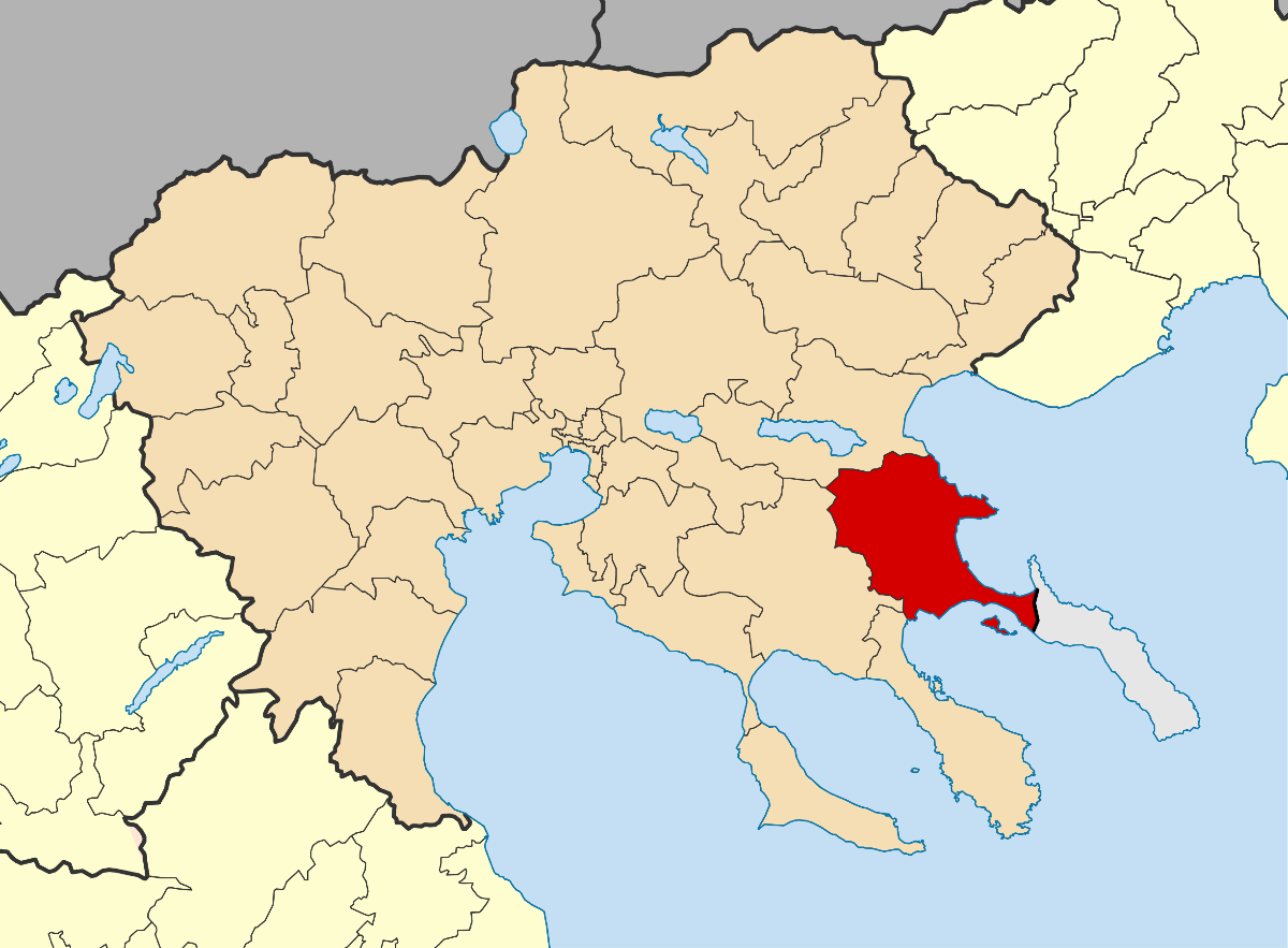 Locator map for Aristotelis municipality in Greek region Central Macedonia (2011)